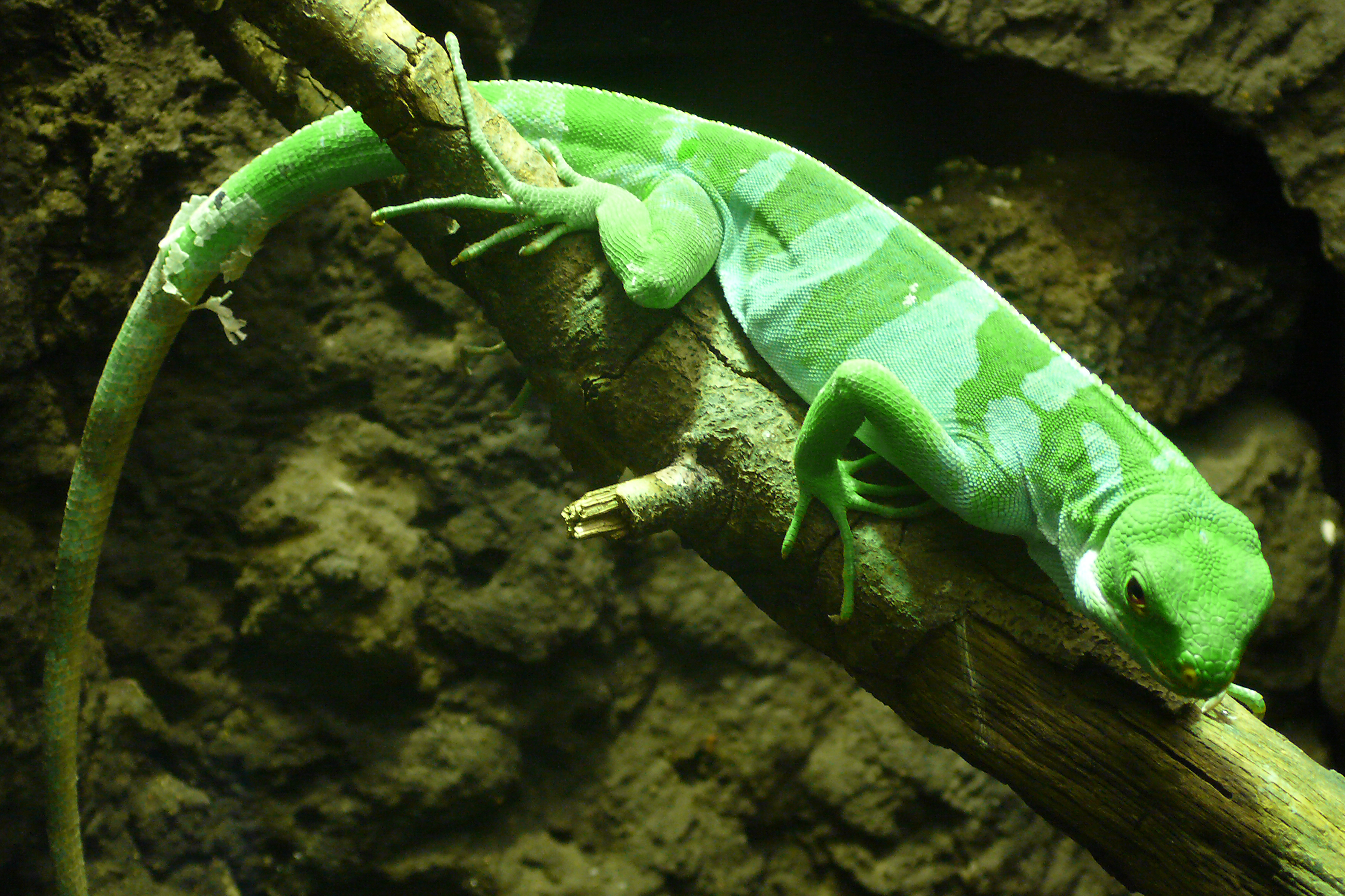 Fiji banded iguana (Brachylophus fasciatus)